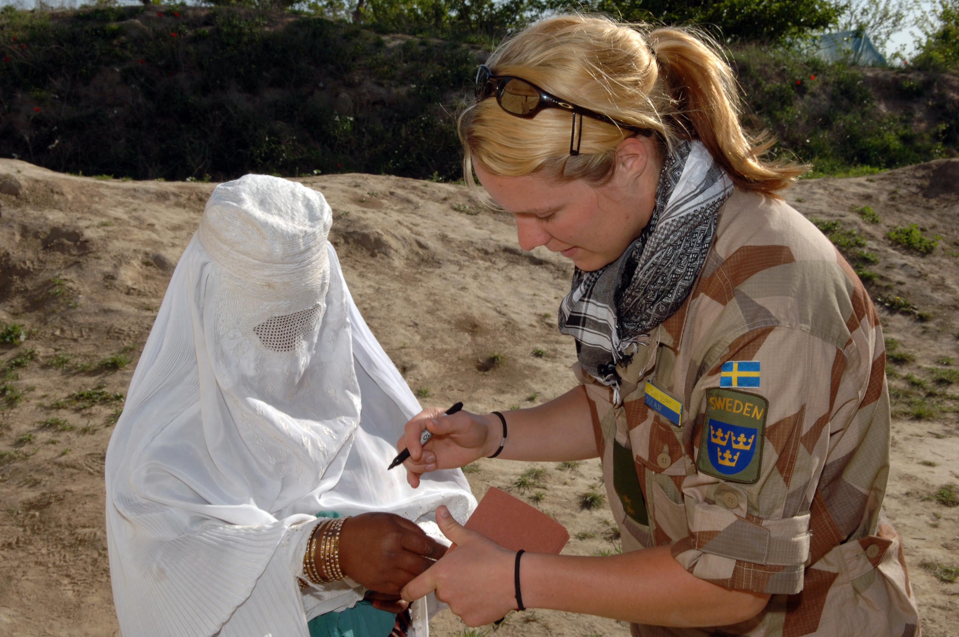 Swedish National Army 1st Lt. Alm, Military Observer Team Liaison Officer, marks the hand of a local woman in order for her to receive medical aid from health providers at Medical Civil Assistance Program (MEDCAP) in village of Stin, Balkh province, Afghanistan on April 04, 2006. This MEDCAP is organized by Combined Joint Special Operation Task Force - Afghanistan for local men, women and children in Balkh province. (U.S. Army photo by Spc. Michael Zuk)